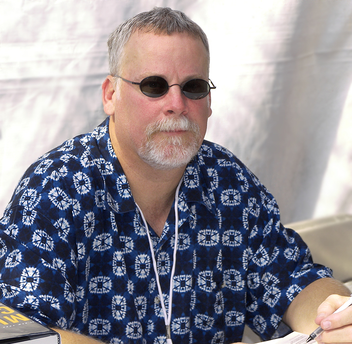 Author Michael Connelly at the Texas Book Festival, Austin, Texas, United States.